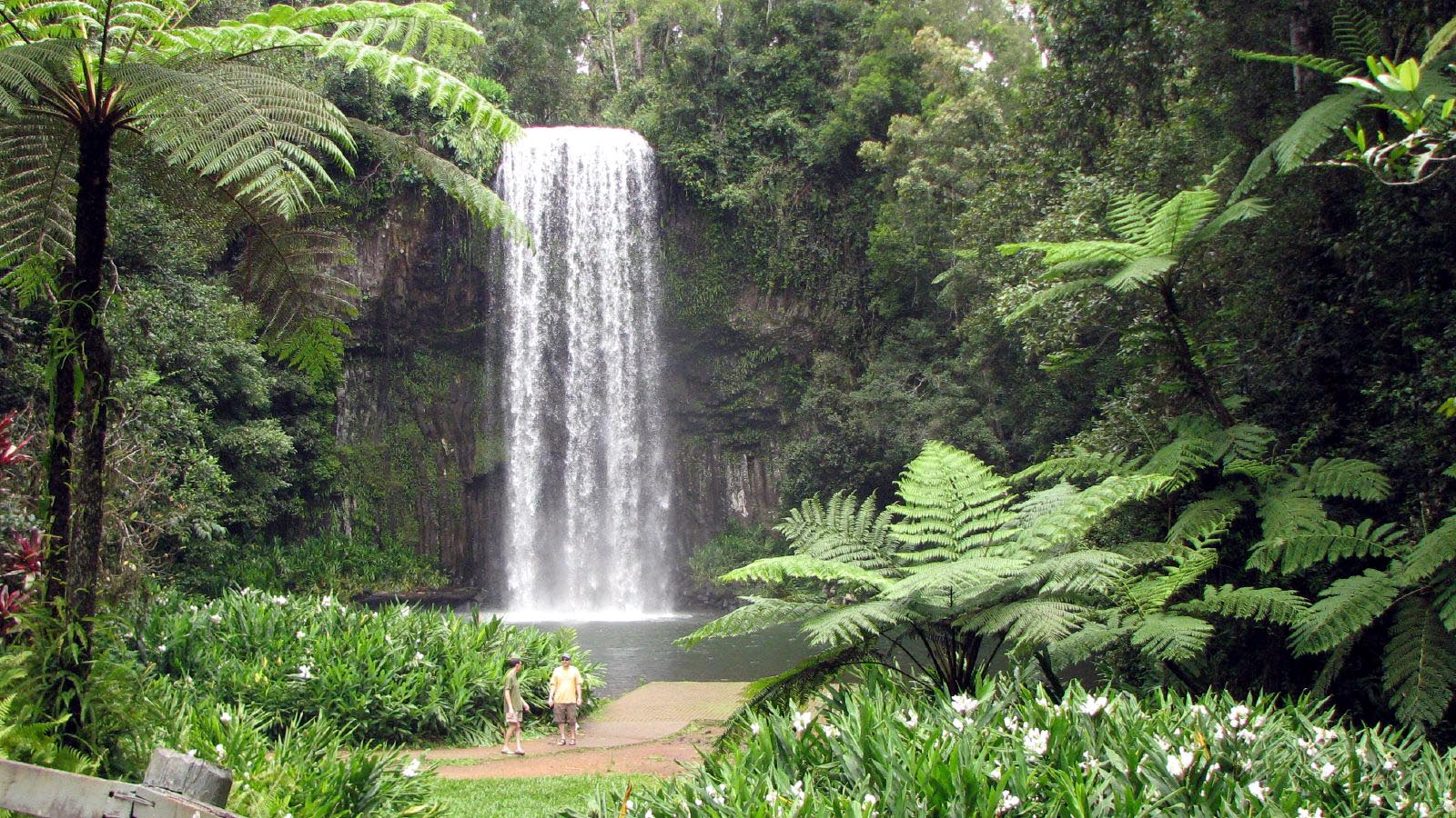 Millaa Millaa Falls - Atherton Tableland, Queensland, Australia